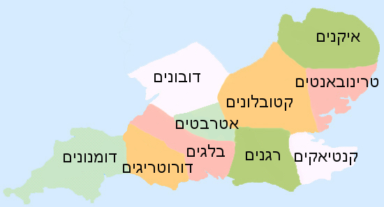 England Celtic tribes - South